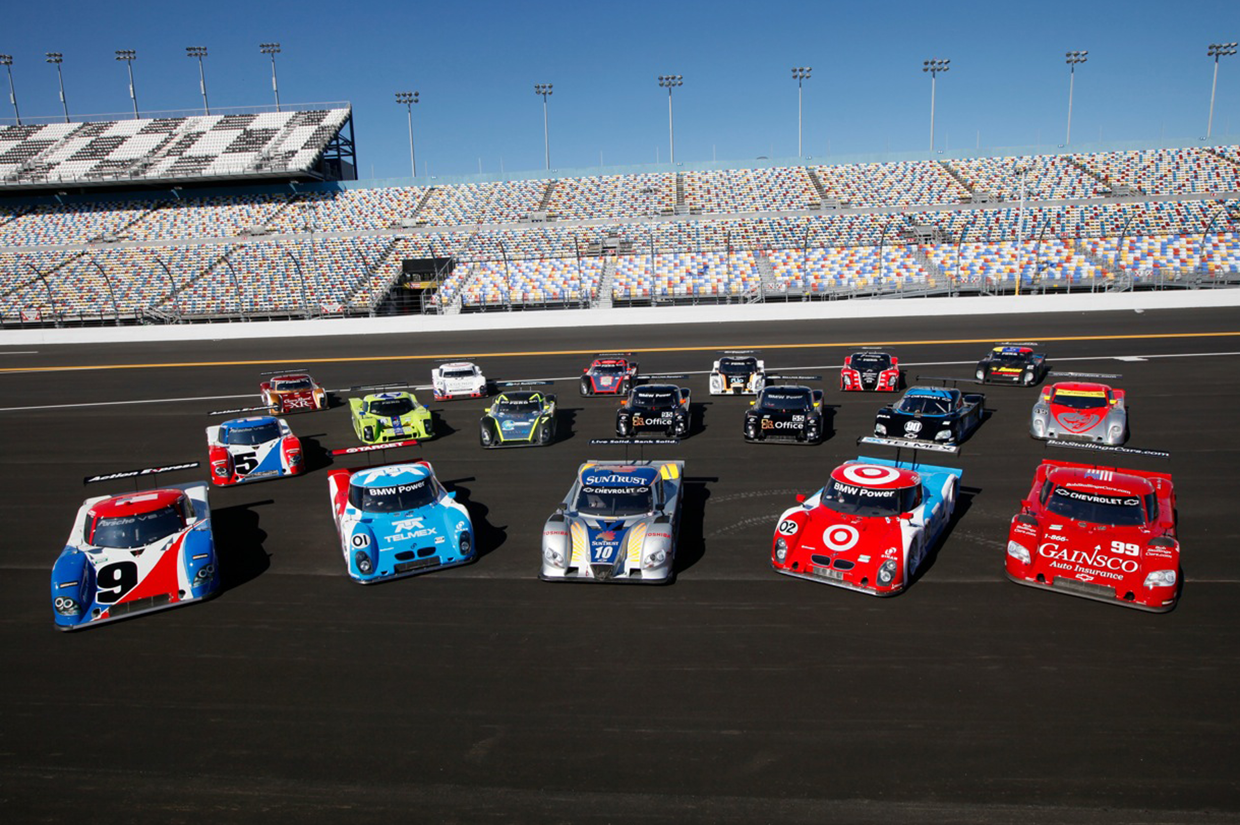 A collection of Daytona Prototype sports cars pose for the camera during the lead-up to the 2011 Rolex 24 at Daytona (24 Hours of Daytona) endurance race. The #01, second from the left in the front row, would eventually prove to be the winning car in the event.